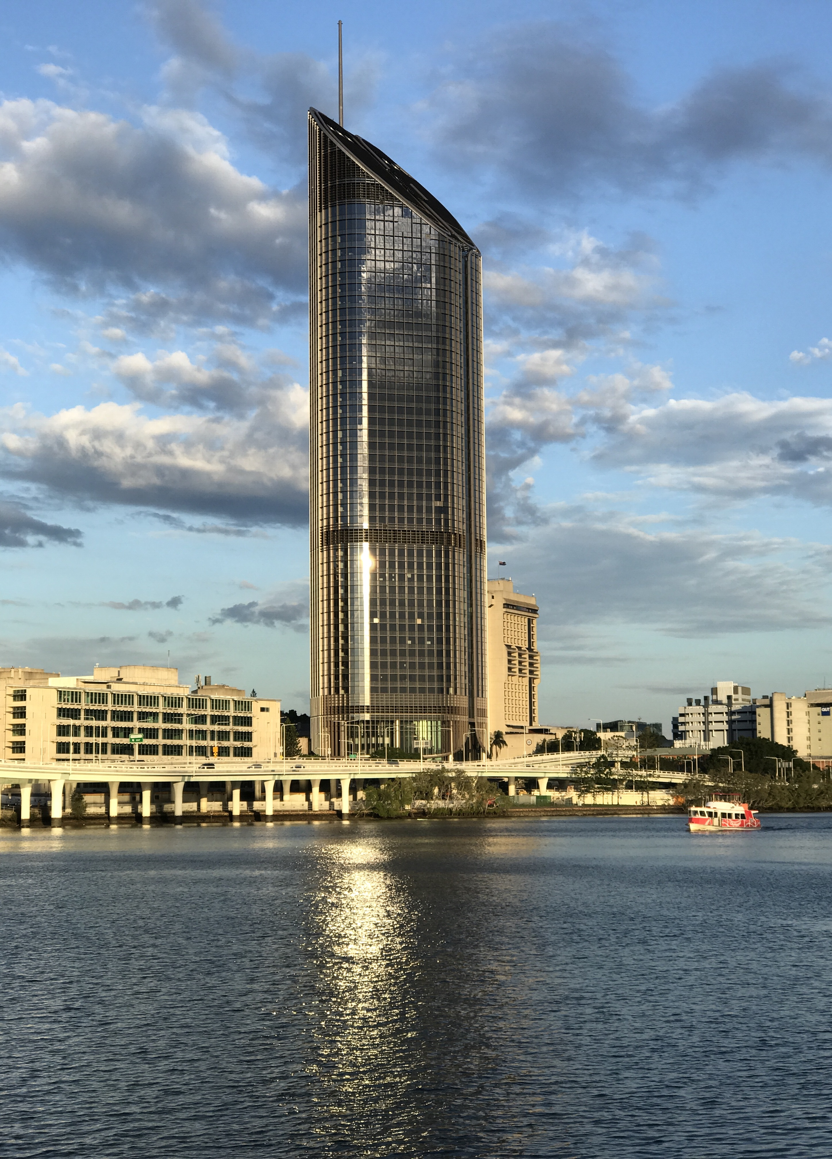 1 William Street, Brisbane in March 2017 at sunset